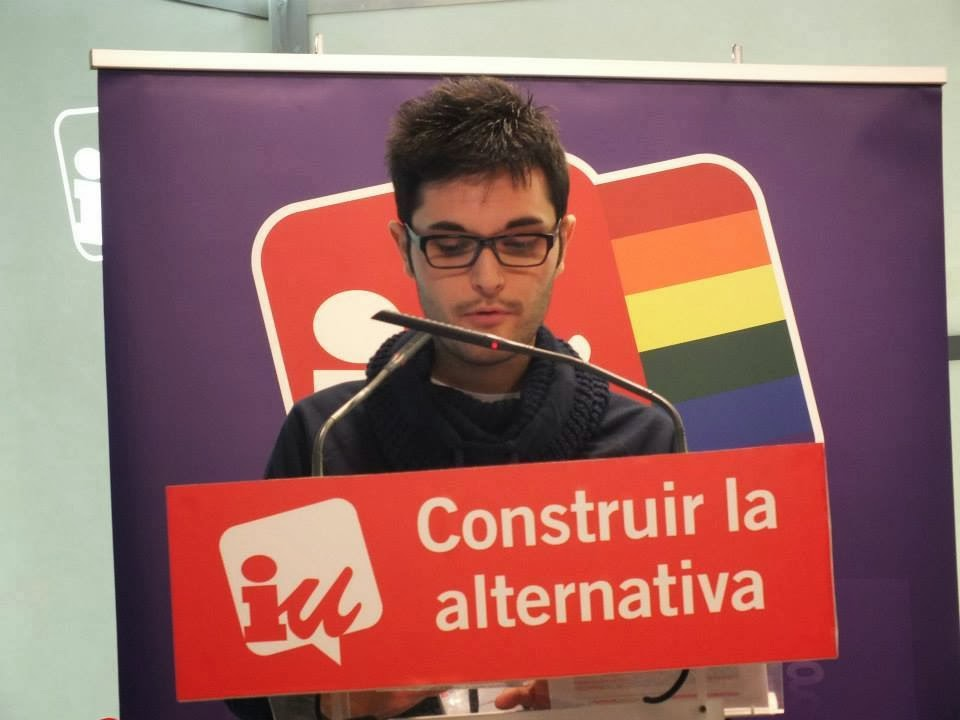 Alberto.